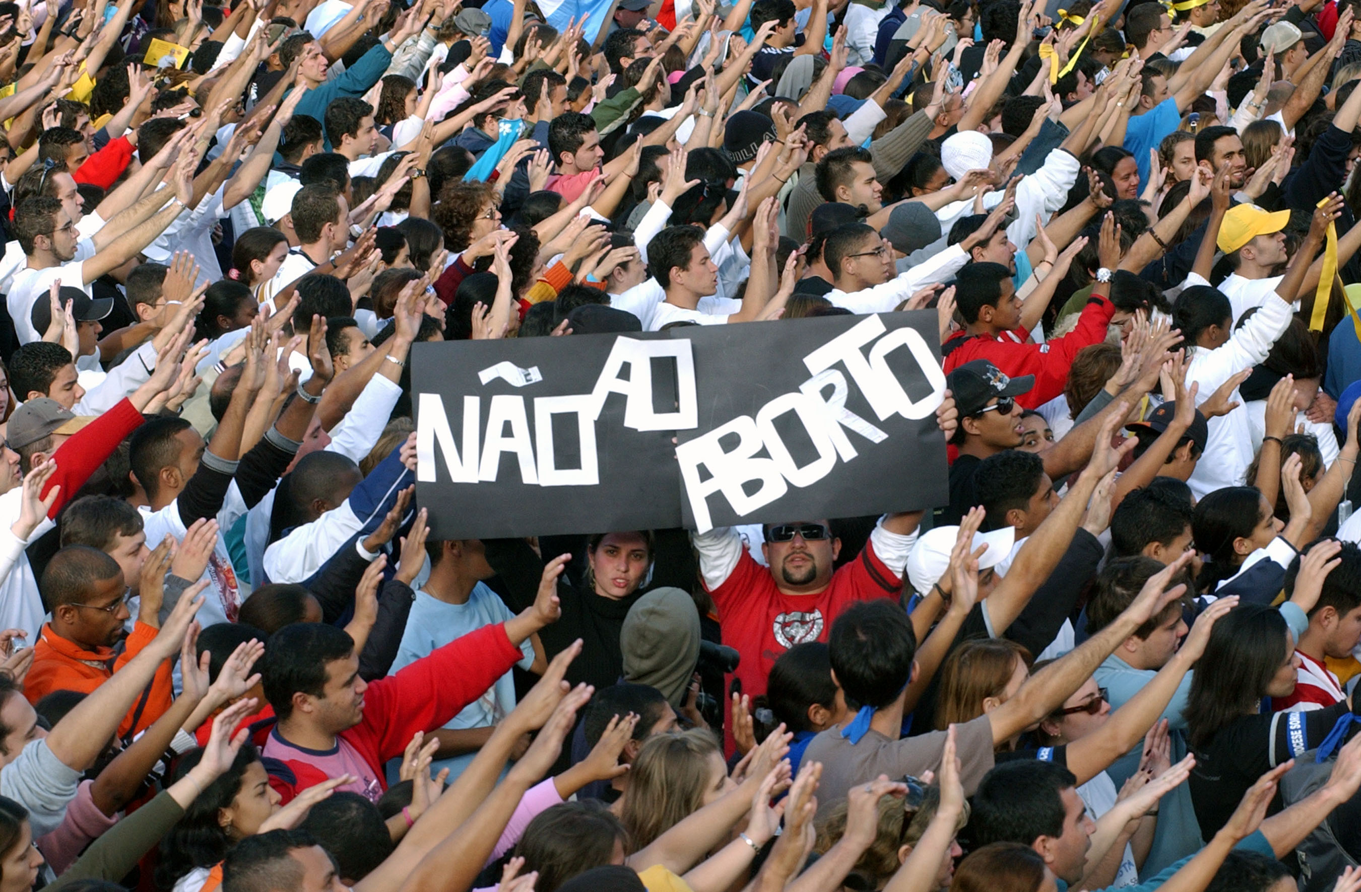 Youth gathered to meet Benedict XVI at the Estádio do Pacaembu in São Paulo, Brazil.